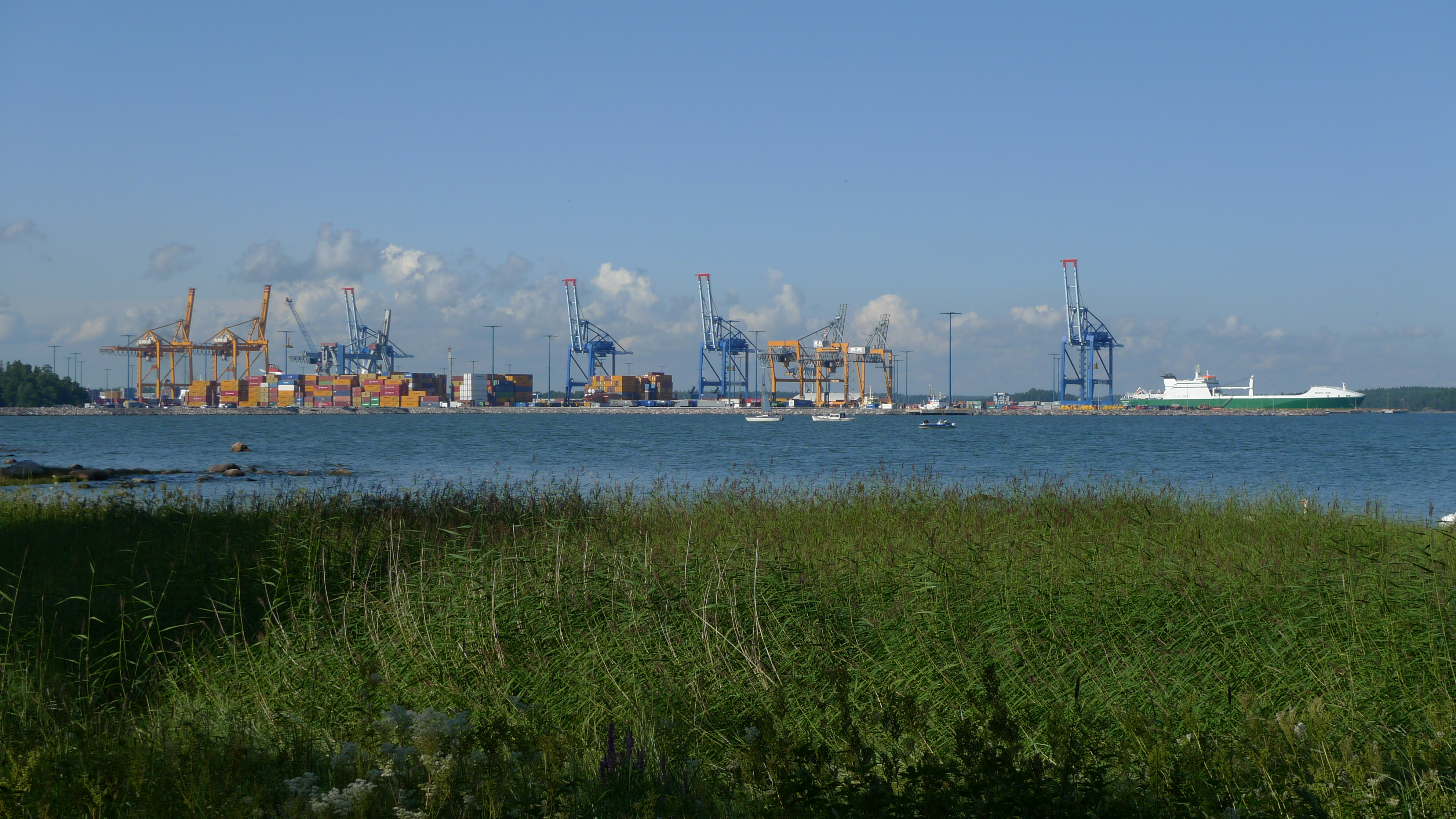 Vuosaari Harbour in Helsinki